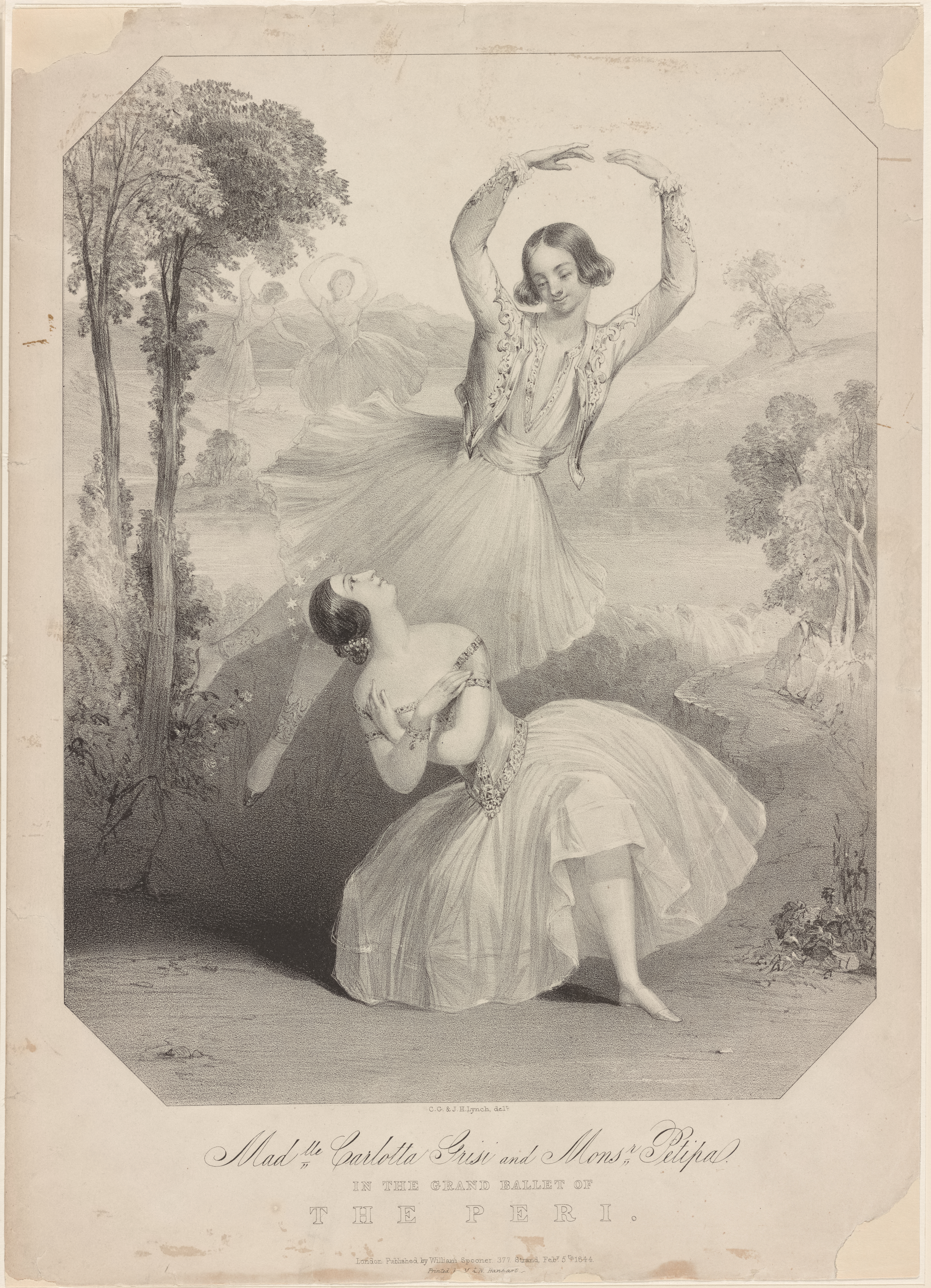 Grisi in front on bended knee looking up at Petipa behind her. Pond with peris and foliage in background.